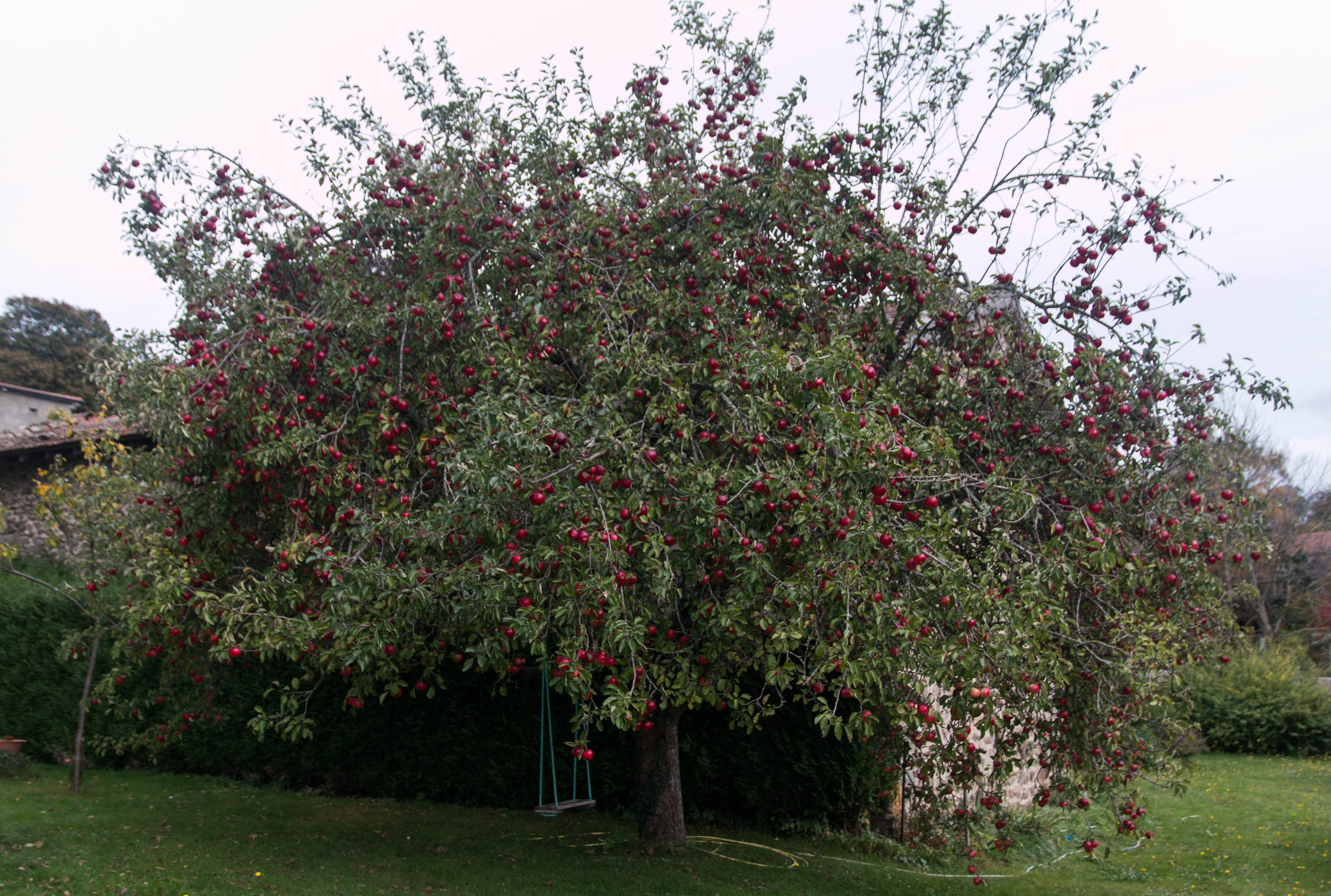 Variety Primrouge of apple tree, aged more than 50 years.